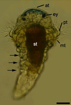 microscopic image of metatrochophore of Pomatoceros lamarckii. Scale bar is 50 μm.